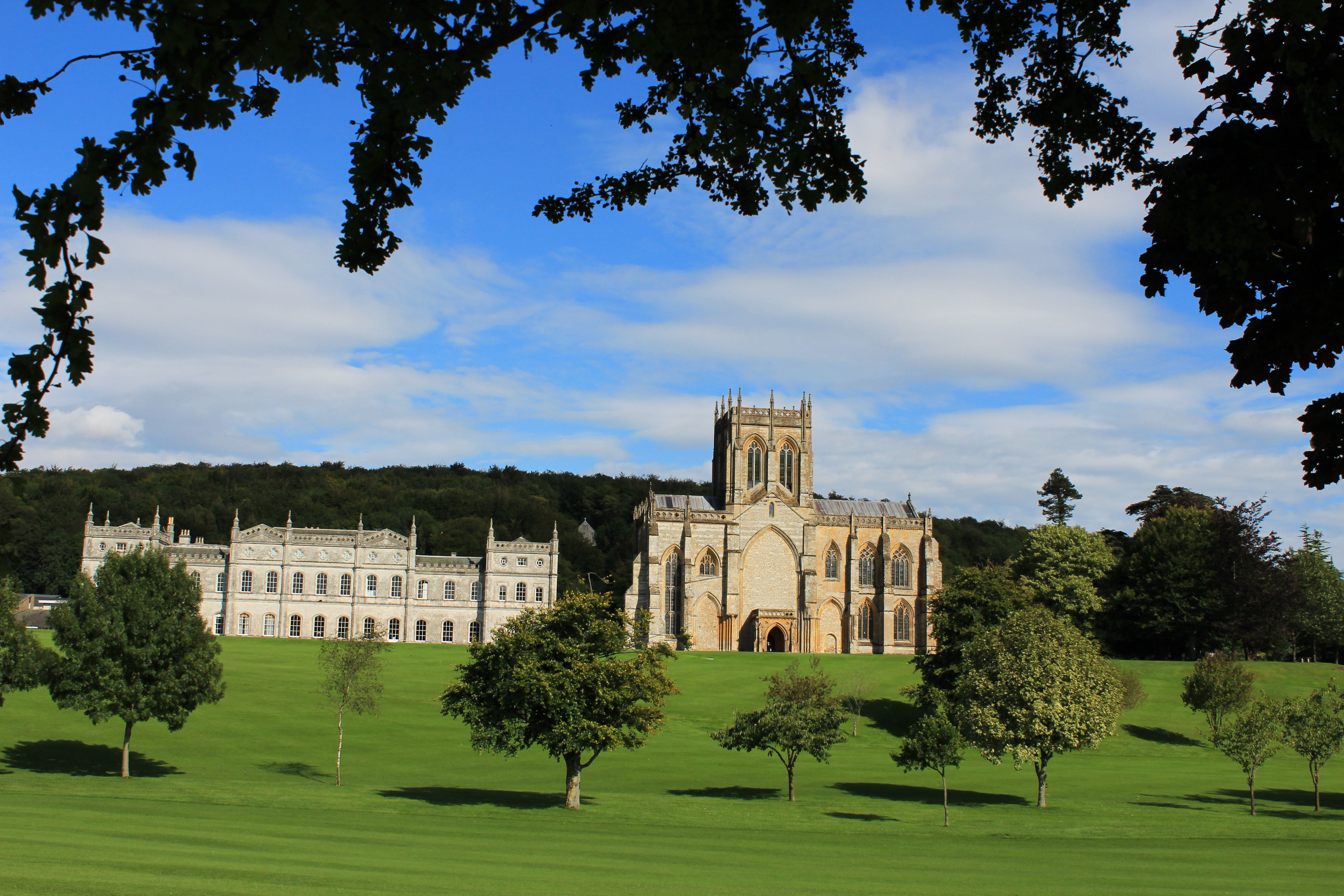 Milton Abbey School including Abbey Church, Dorset, England, on 1 September 2015